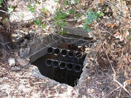 BM-14 cover